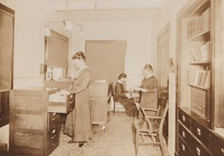 Miss Stella Huntington (standing at left), Miss Ora Regnart (standing right), and Miss Elizabeth Stevens (seated at typewriter) in 1916.